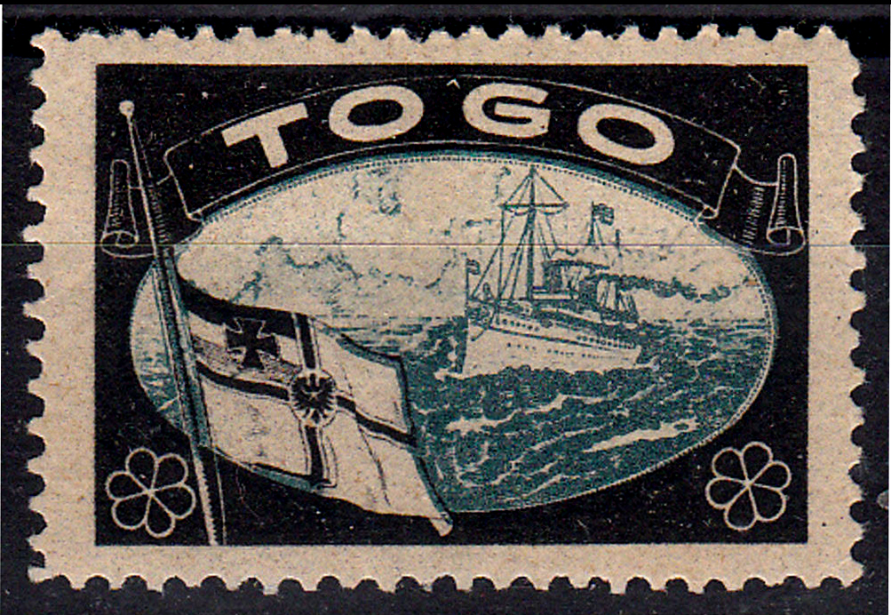 Private German propaganda stamp for lost colonies returning, German Togo, 1920